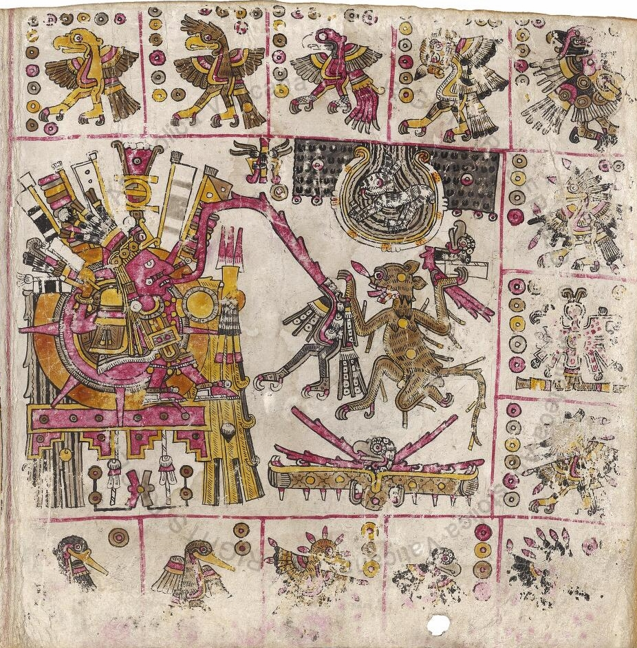 Codex Borgianus Vaticanus Page 71